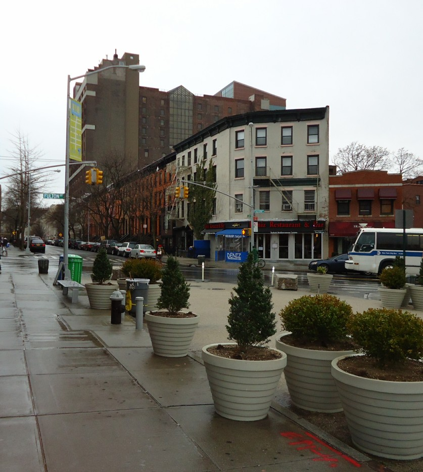 Street scene in Brooklyn, New York.